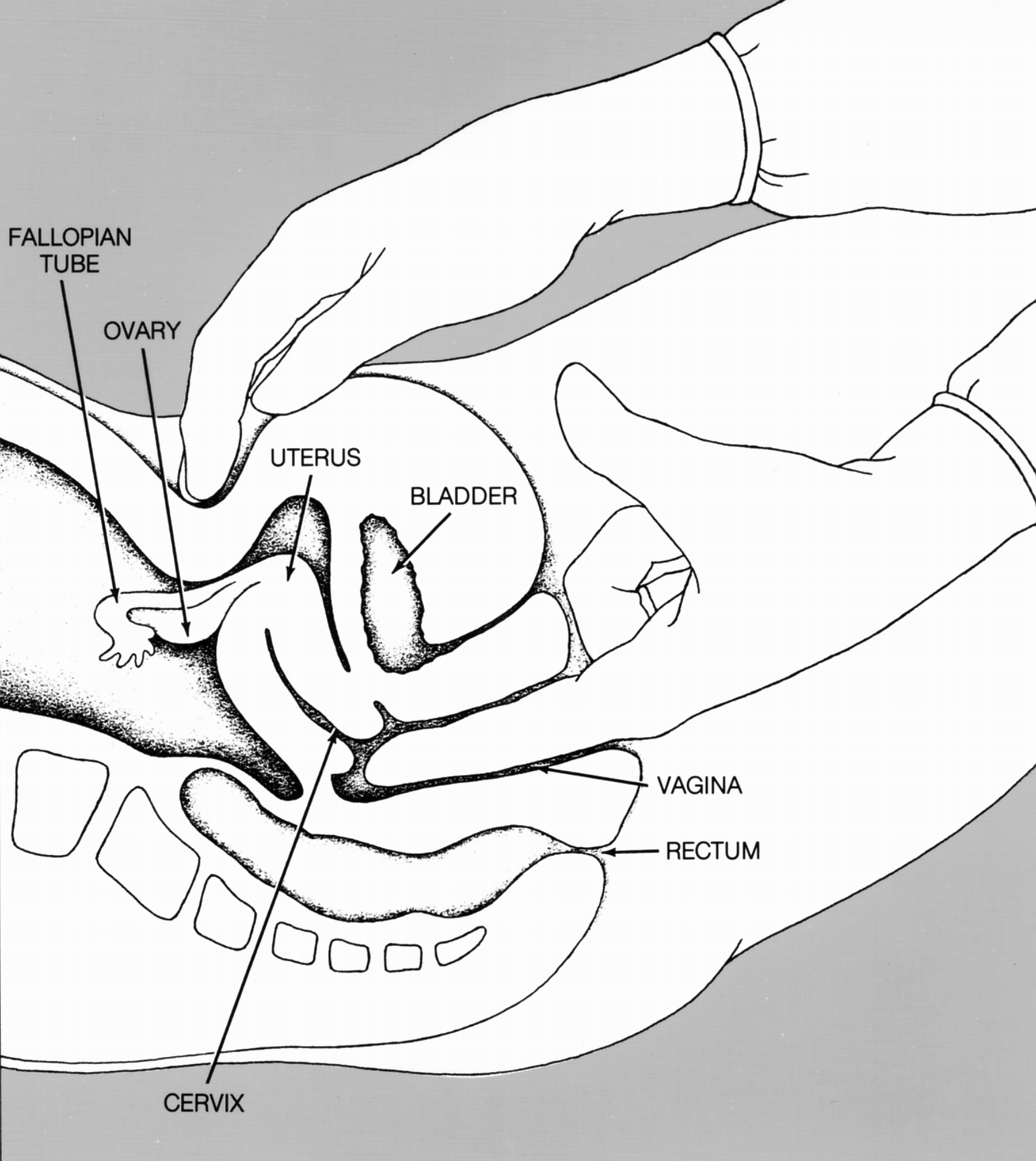 Line drawing showing part of pelvic exam procedure.